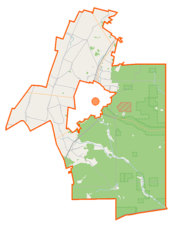 Map of Gmina Hajnówka, Poland This map of Hajnówka (gmina) was created from OpenStreetMap project data, collected by the community. This map may be incomplete, and may contain errors. Don't rely solely on it for navigation. Border coordinates52.854223.4023←↕→23.733952.5939